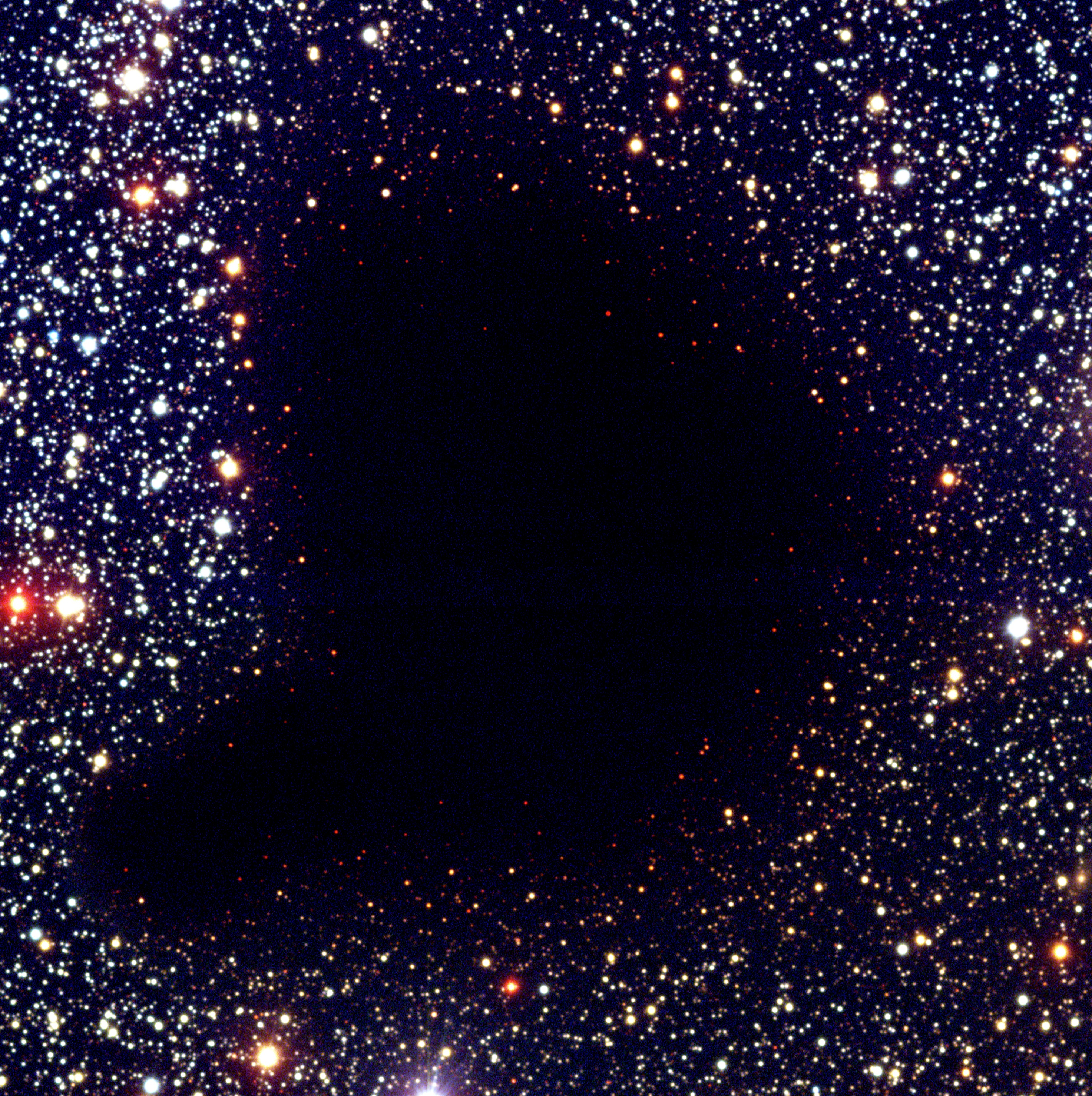 How to Become a Star